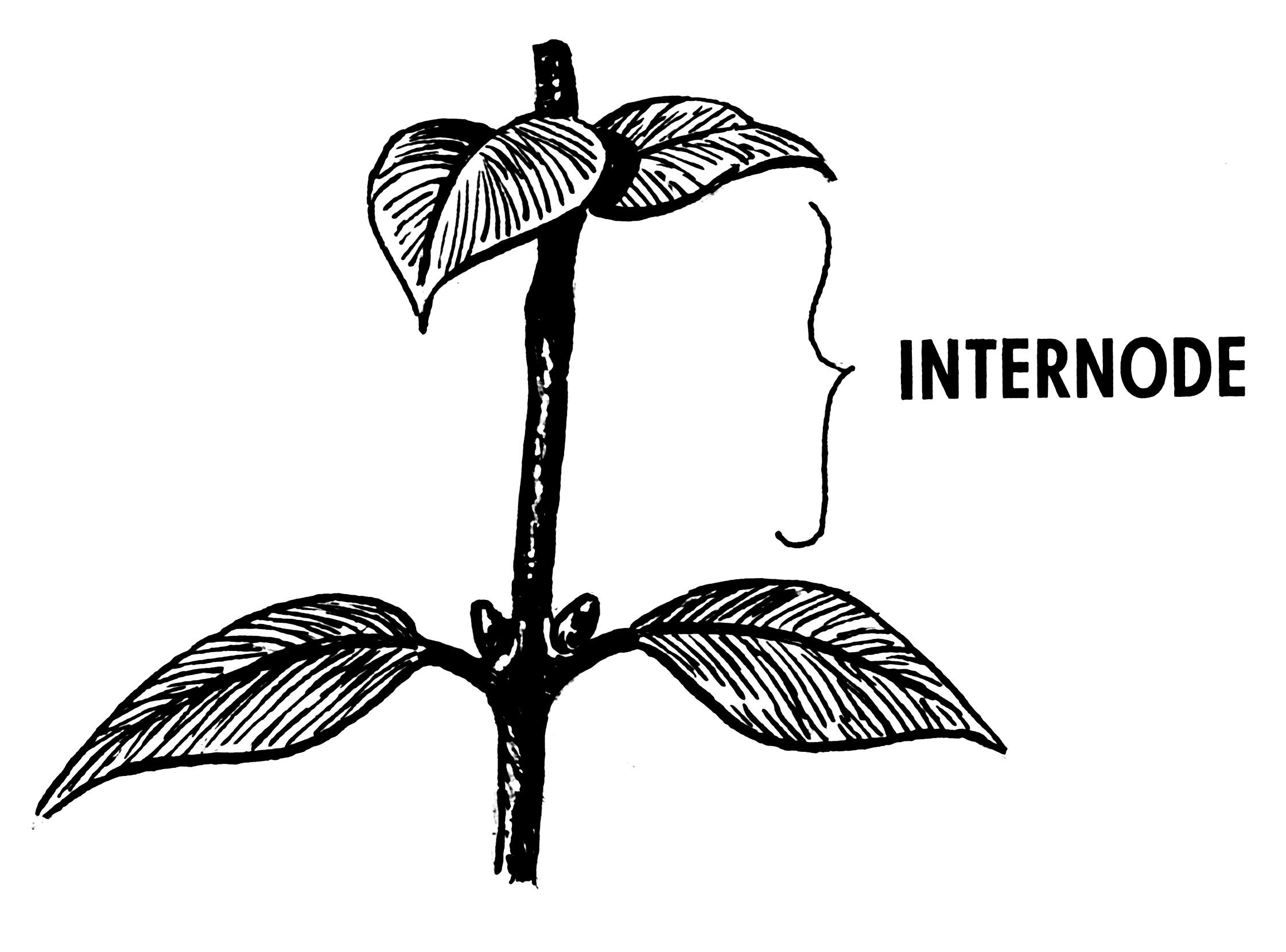 Line art drawing of an internode